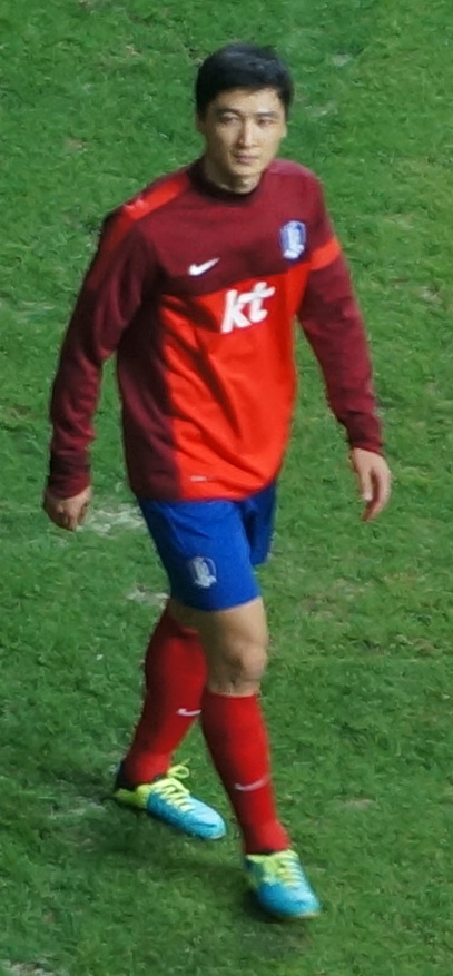 Kwak Tae-hwi.